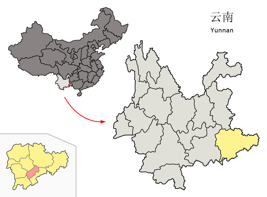 Location of Xichou County (pink) and Wenshan Prefecture (yellow) within Yunnan province of China Map drawn in october 2007 using various sources, mainly : Yunnan province administrative regions GIS data: 1:1M, County level, 1990 Yunnan Counties map from